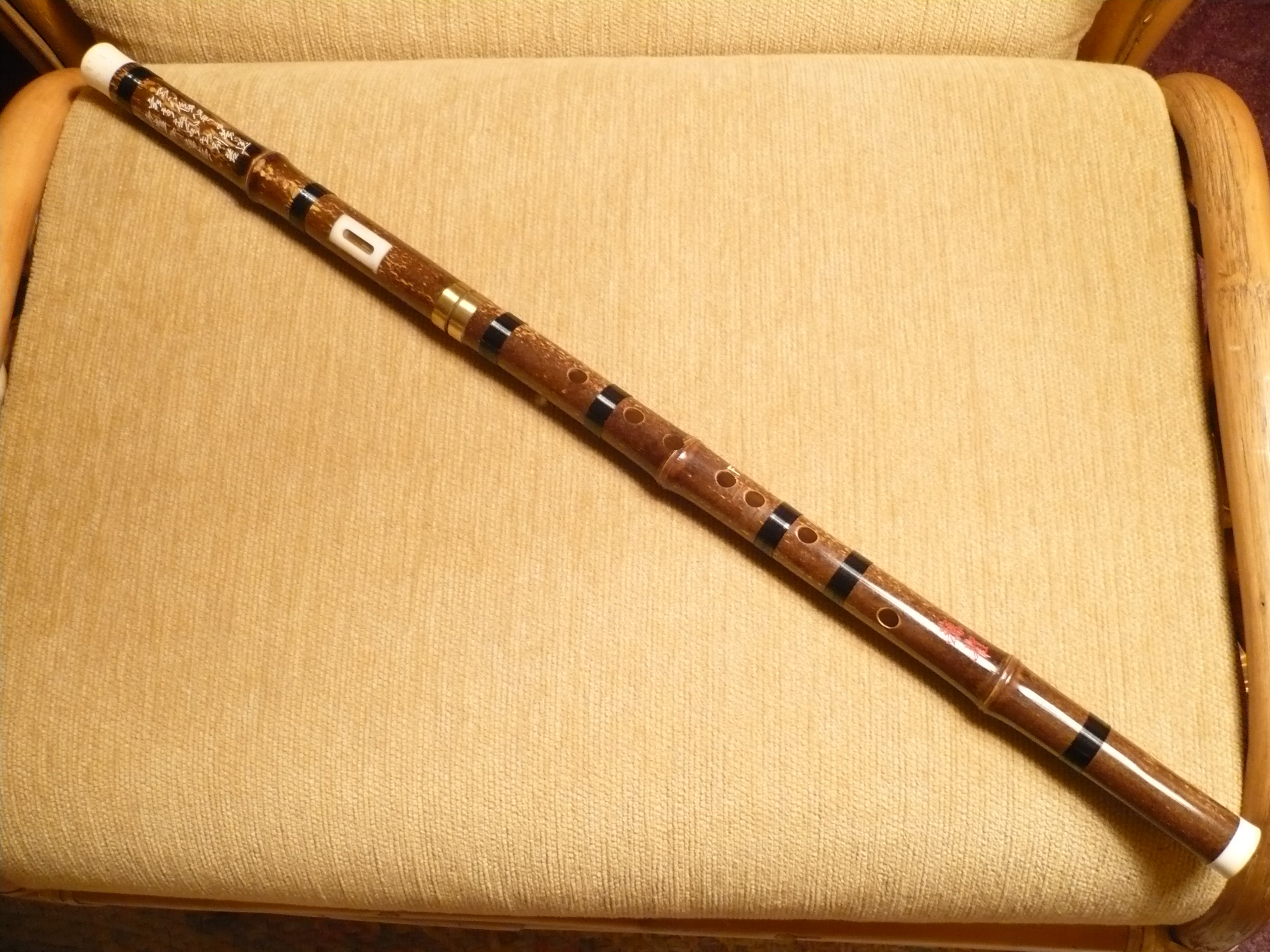 A bawu (free reed pipe) in the key of F. The bawu was probably made in China.